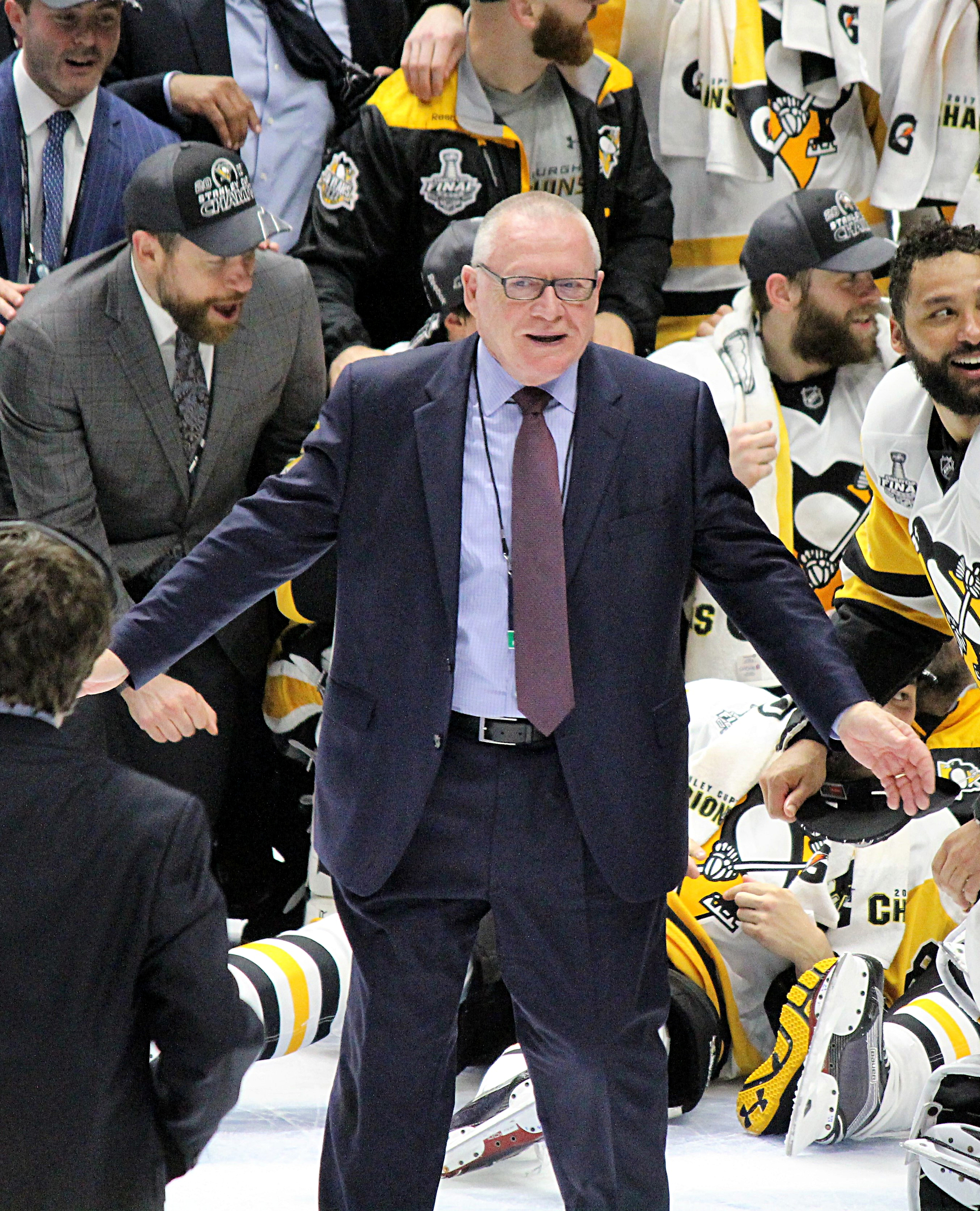 Pittsburgh Penguins GM David Morehouse celebrating the team's fifth Stanley Cup win, June 11, 2017, at Bridgestone Arena in Nashville, TN.